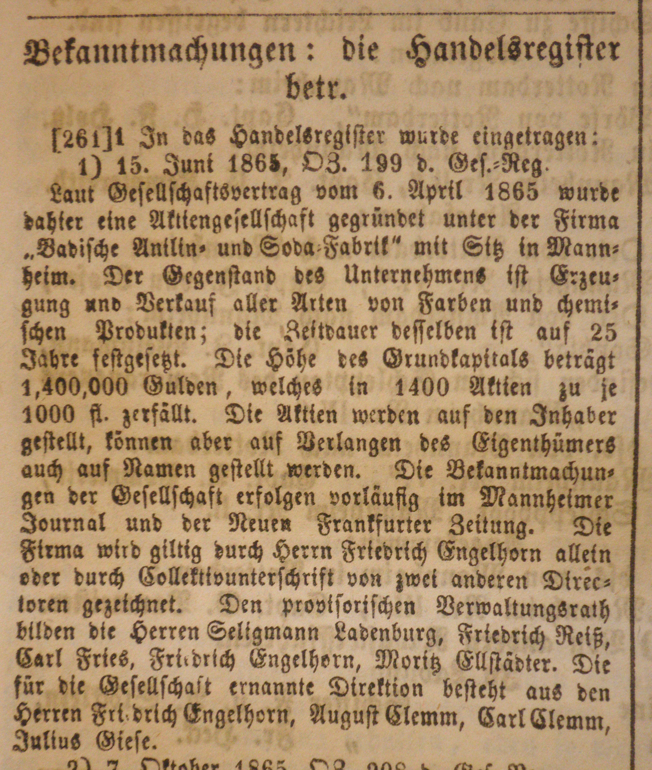 In June 1865 the BASF was enrolled in the commercial register, "Mannheimer Journal", 16 October 1865